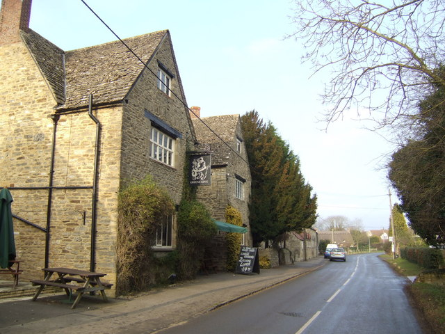 The Bear and Ragged Staff, Cumnor Situated at the west end of the village, this is a pub and restaurant dating back to the 14th century.